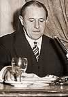 Álvaro Alsogaray (1913-2005). Argentine military man and politician.